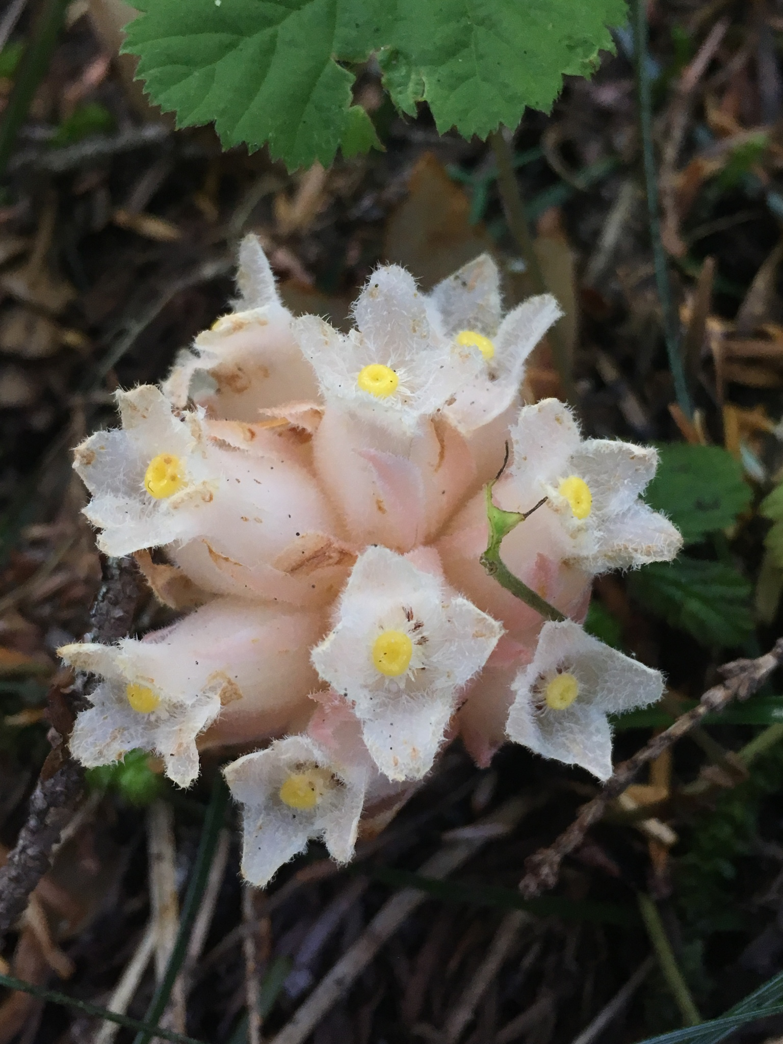 Hemitomes congestum, seen in Okanogan-Wenatchee National Forest, Cle Elum, WA, USA